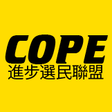 Logo for the Vancouver political party the Coalition of Progressive Electors.